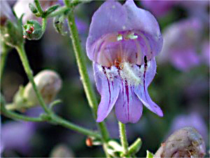 Grinnell's Penstemon (Penstemon Grinellii) Downloaded from : en: Credits : Bureau of Land Management